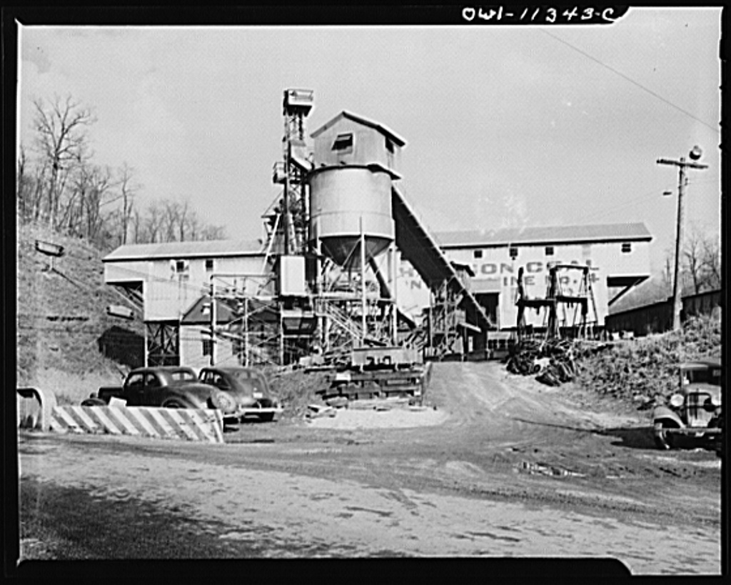 Title: Pittsburgh, Pennsylvania (vicinity). Montour no. 4 mine of the Pittsburgh Coal Company. Tipple, where coal is loaded into railroad cars for delivery to the cleaning plant where slate and all other foreign substances are removed by washing